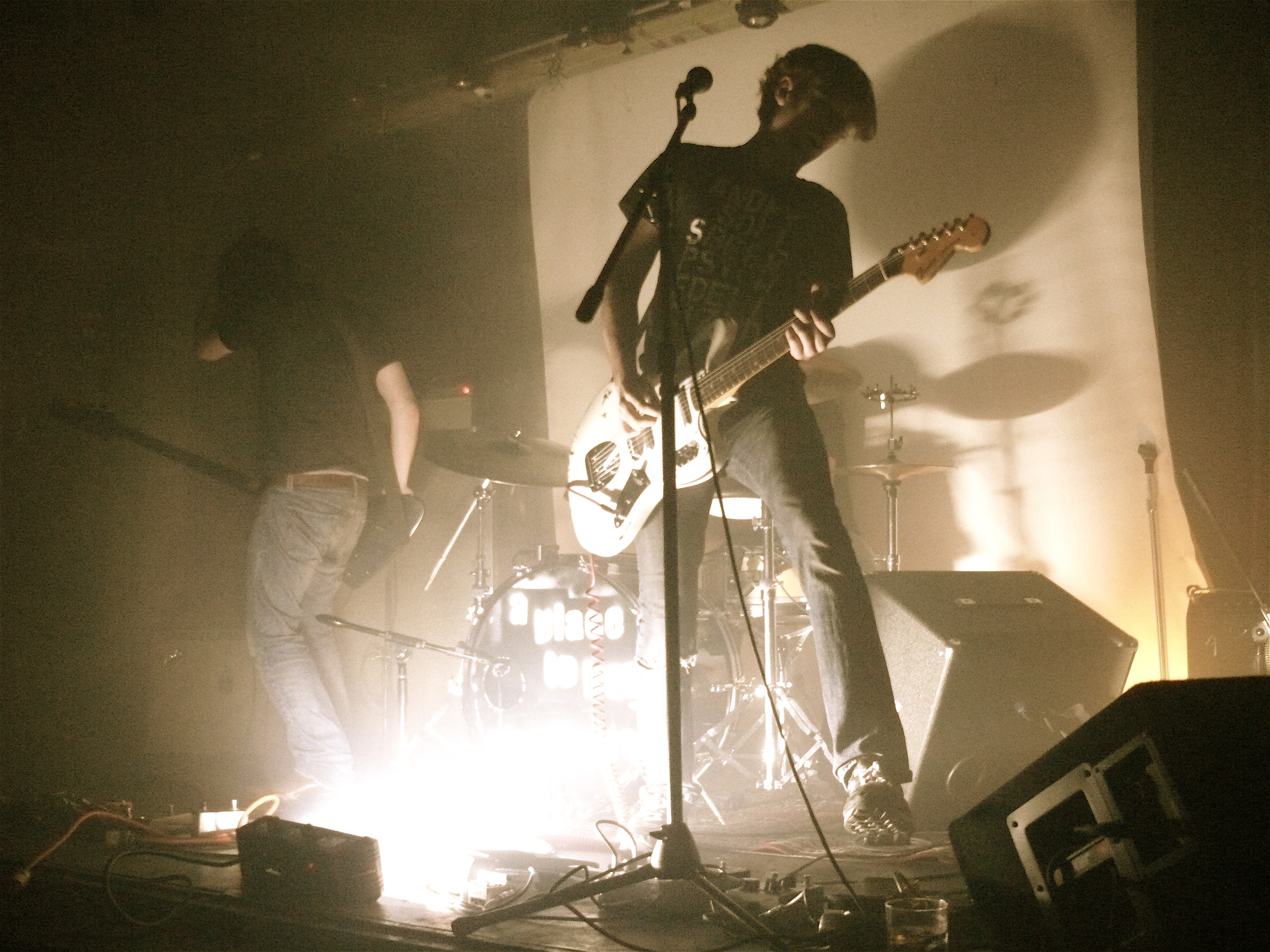 A Place To Bury Strangers live at Galapagos.